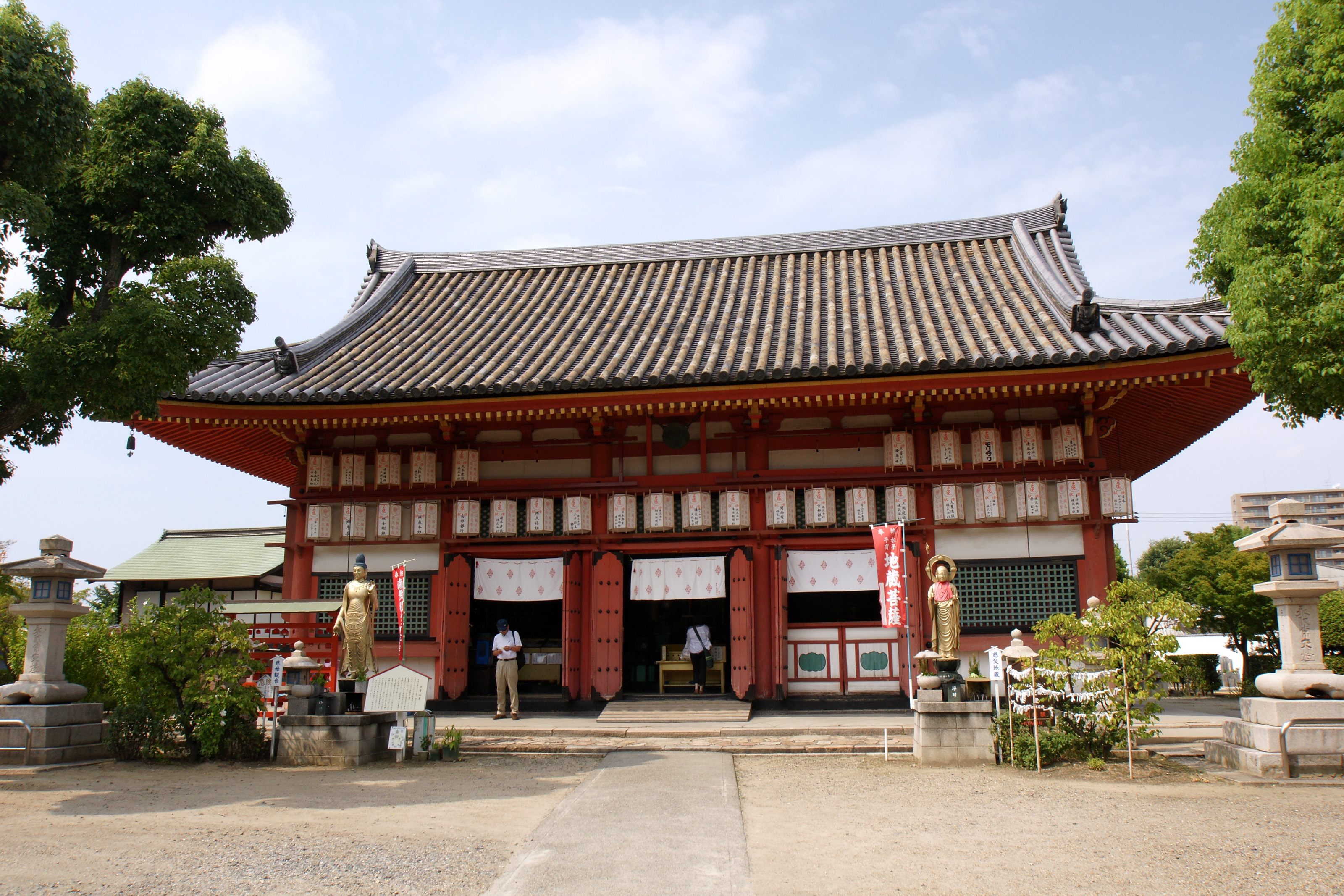 Shomanin (Aizendo) in Osaka, Osaka prefecture, Japan